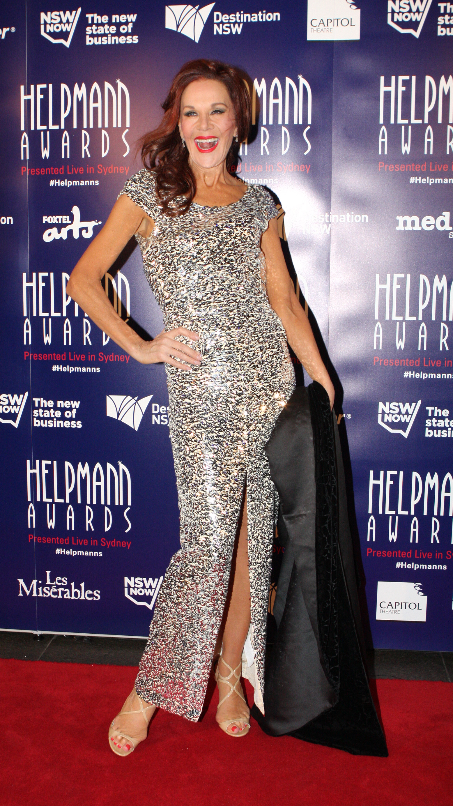 Rhonda Birchmore